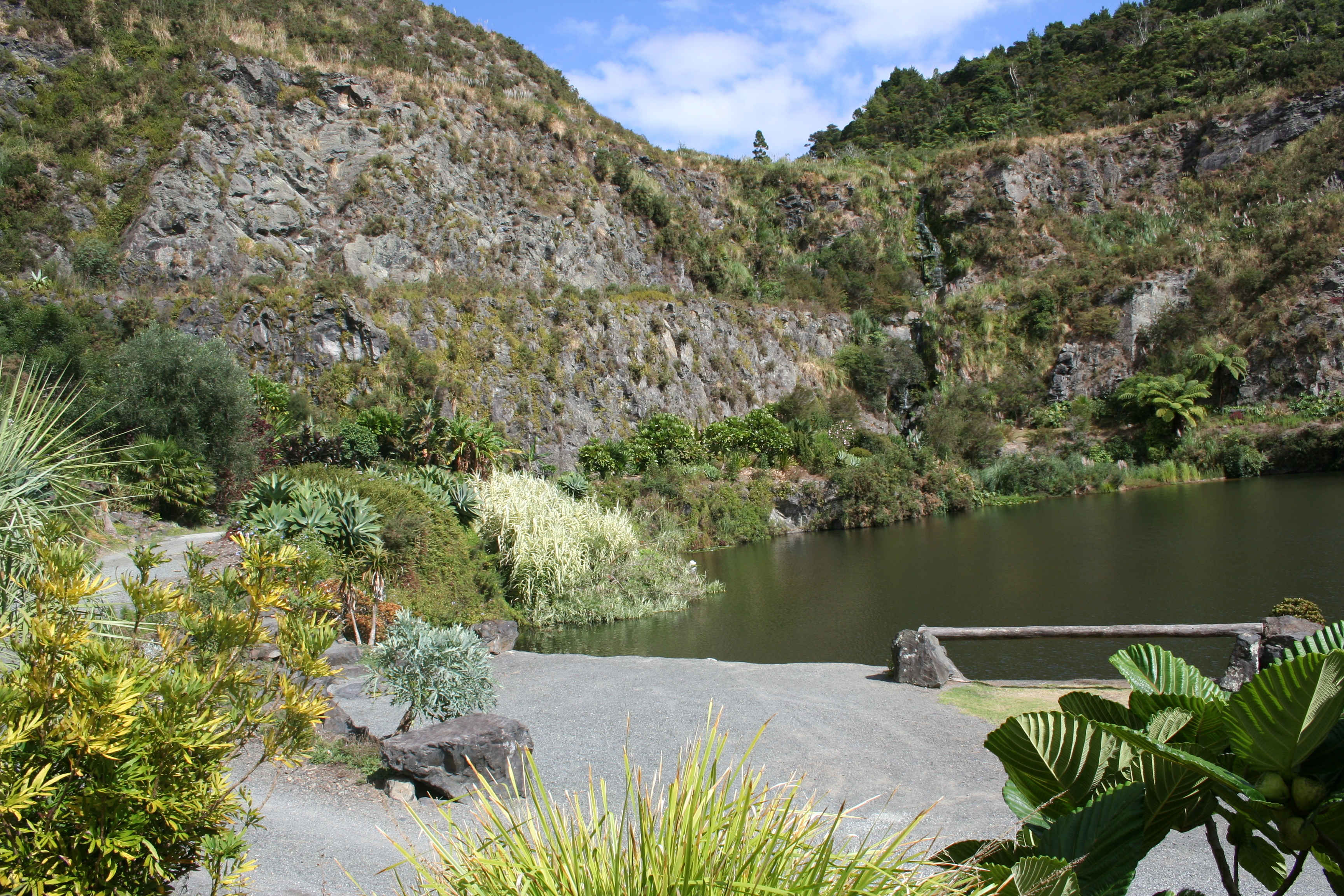 Whangarei Quarry Gardens, a subtropical garden in a former quarry